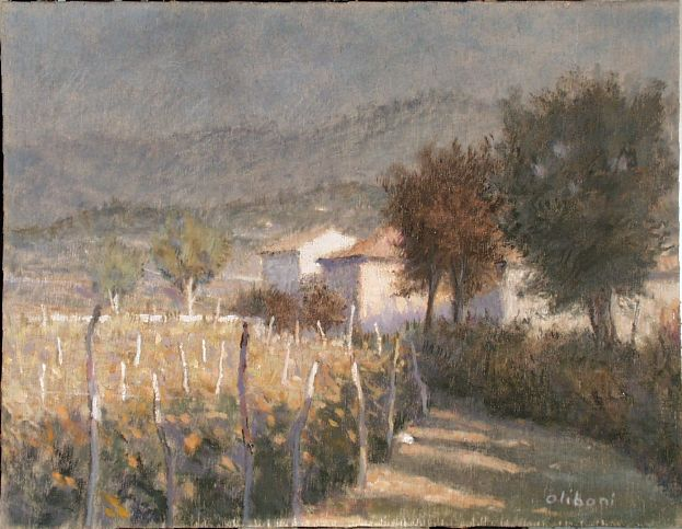 Painting by Silvio Oliboni : Verso Caprino / 0363ac